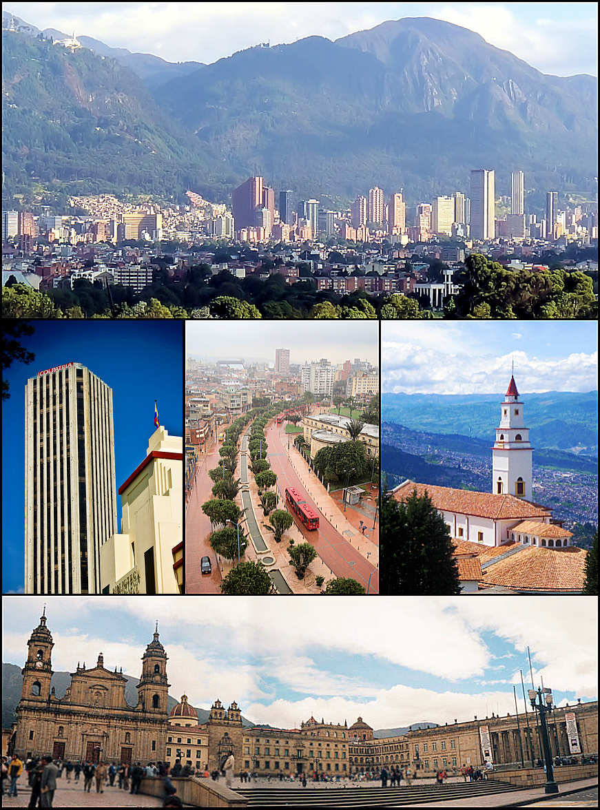 Up: Partial view of Bogotá's skyline. Left: Colpatria Tower. Centre: "Eje ambiental", or the surrounding axis of Jiménez de Quesada Avenue, and the TransMilenio bus rapid transit system. Right: The "Basílica Santuario del Señor Caído de Monserrate", or Fallen Lord of Monserrate Basilica, in Bogotá's Hills. Down: Bolívar Square in downtown Bogotá.